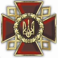 Emblem of the State Department of Ukraine for Execution of Punishment